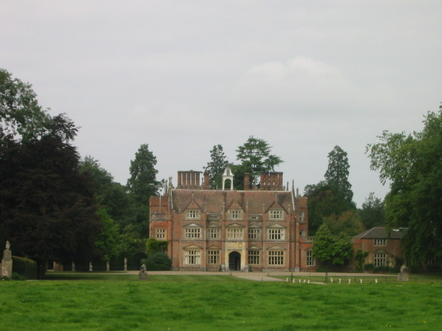 Heydon Hall This fine home was built in 1581 and despite some additions over the centuries it has now been restored to its original condition. It stands in its own grounds and the nearby village of Heydon is one of only 12 that are privately owned in the UK. It belongs to the Buler Long family who have been here since the 17th Century. No one will be surprised to know it is popular with film-makers who are looking for character locations.